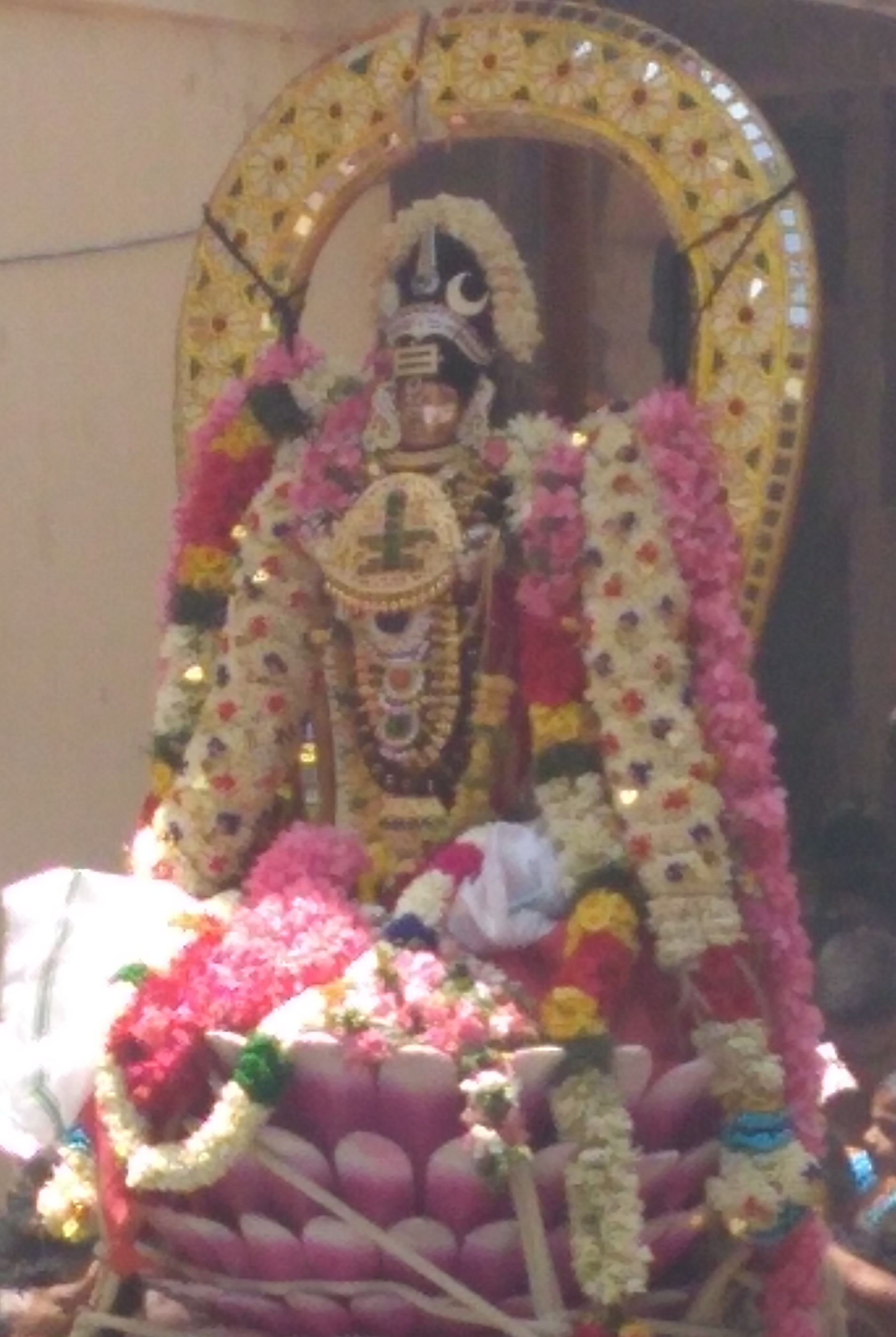 Pattisvarammuthupandal பட்டீஸ்வரம்முத்துப்பந்தல்